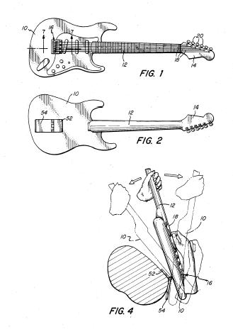 Patent drawing for Hennessey guitar string bender, figures 1, 2 and 4, patent 4658693, titled Rear operated control device for guitar.